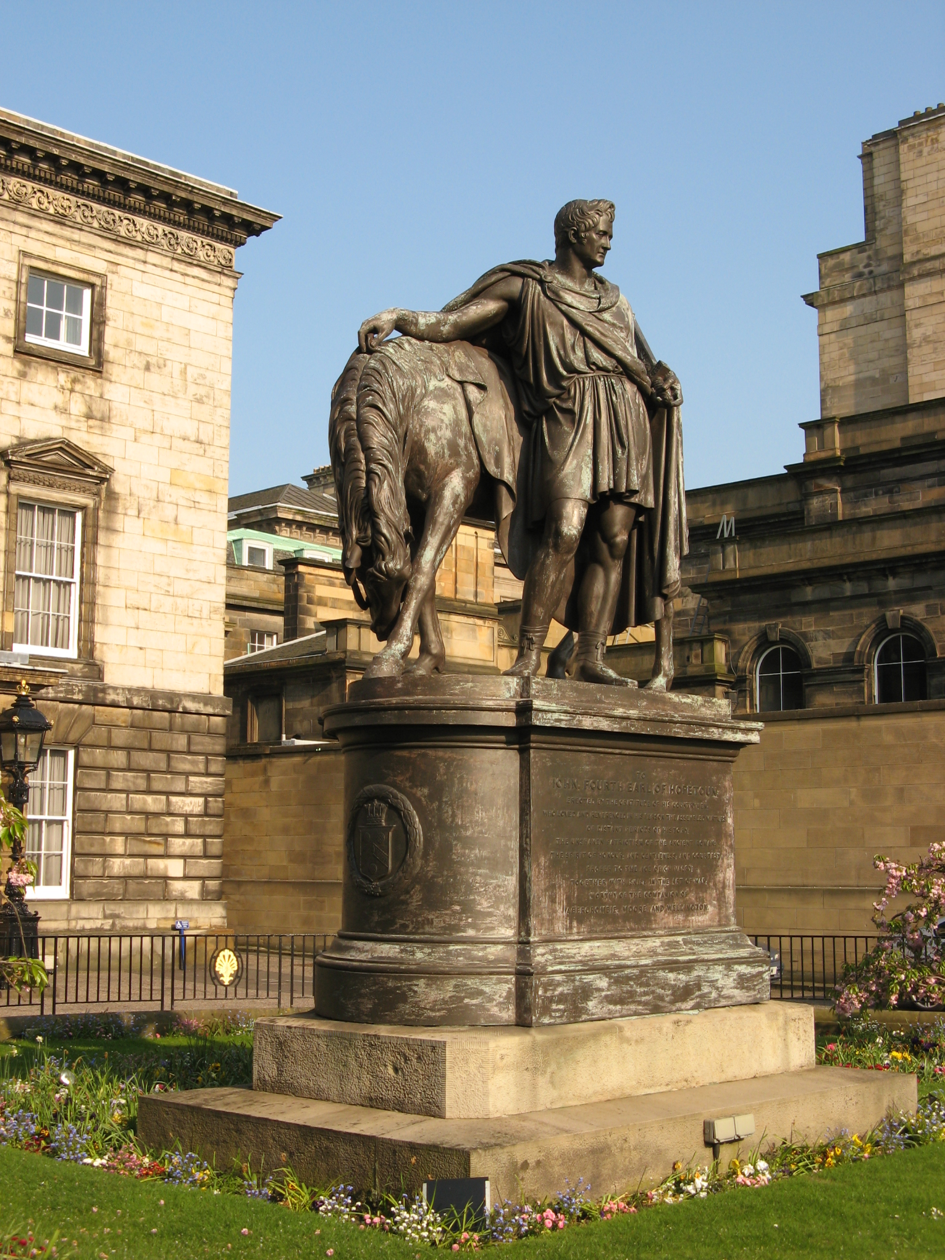 Monument to John, Earl of Hopetoun, outside the Royal Bank of Scotland building on St Andrew Square, Edinburgh, Scotland. Sculpted by Thomas Campbell, 1829. Erected 1834.